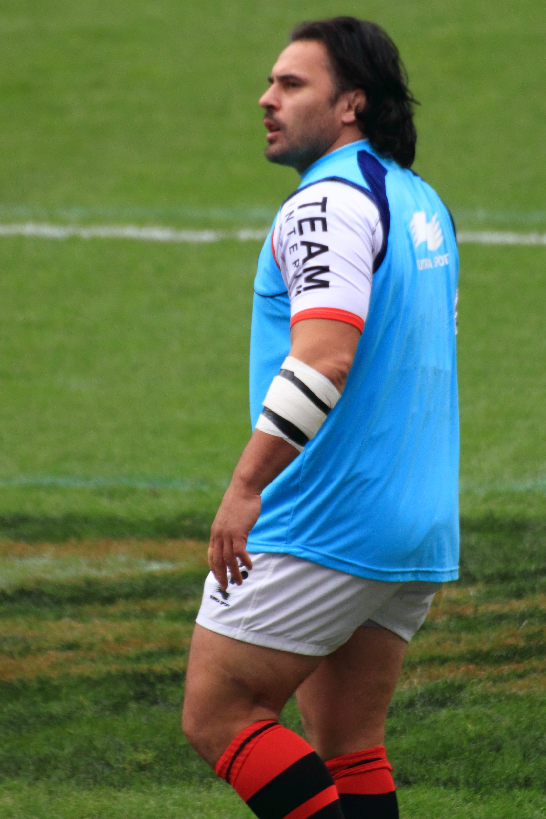 Top 14 — 3 December 2011, Stadium. Match between: Stade toulousain — RC Toulon